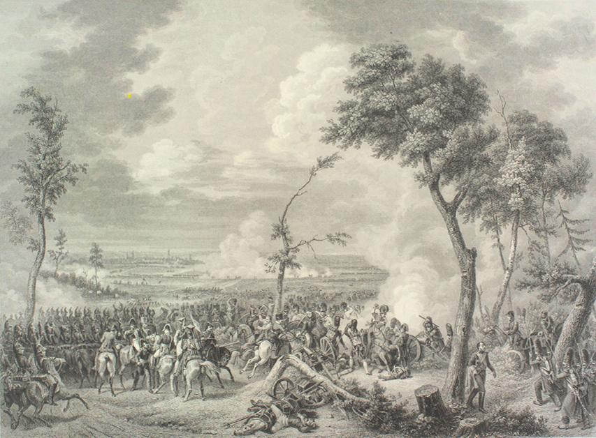 Battle of Hanau (October 30, 1813). The Campaign of Leipzig forced Napoleon to retire to the west of the Rhine, in the course of which the French defeated a force of Germans at Hanau, near Frankfurt, on 30 October 1813. This is one of four battle scenes painted by Vernet for the duc d'Orléans (later King Louis-Philippe) depicting French successes in the Revolutionary and Napoleonic wars.